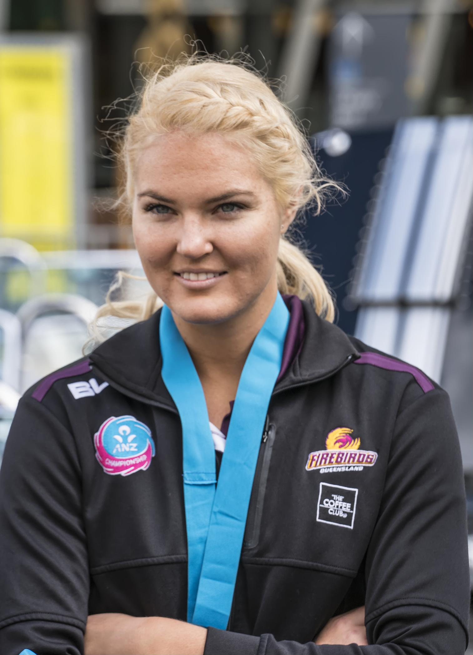 Firebird during ticker tape parade Brisbane